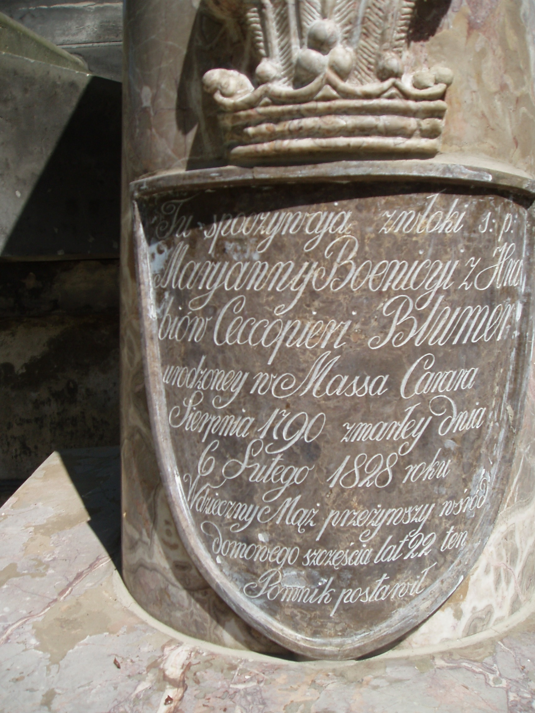 Marianna Blumer's Plaque, Blumer Families grave, Powązki, Warszaw